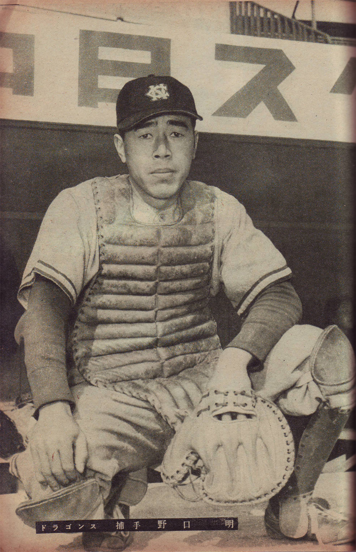 Akira Noguchi (Chunichi Dragons). taken in 1950.